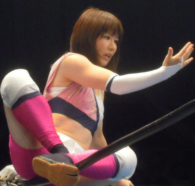 Japanese professional wrestler,Maki Narumiya. 21 Aug 2011 Ice Ribbon Korakuen Hall.